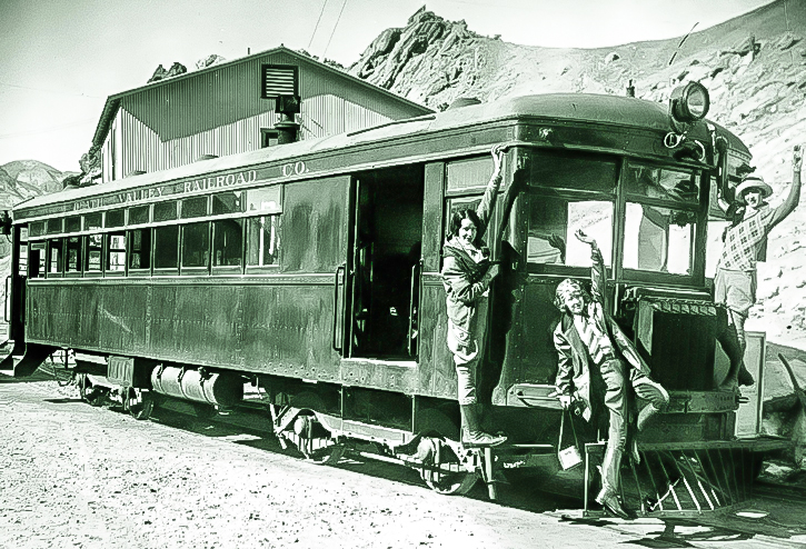 Death Valley Railroad - Brill Motorcar